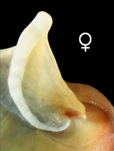 Photo of a detail of a rib shield of an inner side of an operculum of female of Thedoxus fluviatilis.